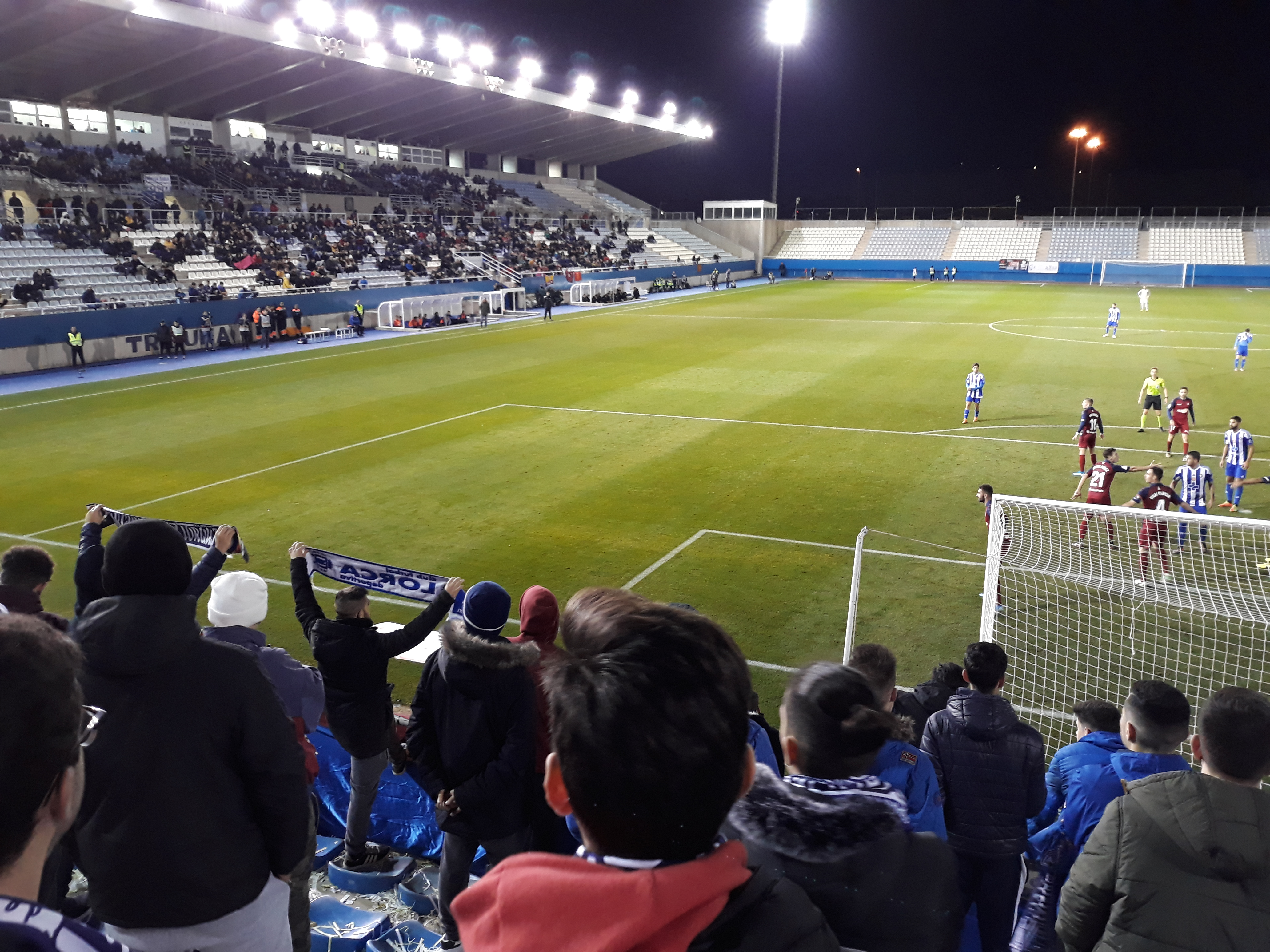 CF Lorca Deportiva - CA Osasuna (19-12-2019)